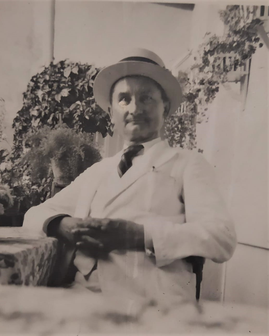 Photo of Vojislav Ilić Mlađi. It can be found in the Society for Culture, Art and International Cooperation Adligat in Belgrade, Serbia. Српски (ћирилица): Војислав Илић Млађи. Фотографија се налази у Удружењу за културу, уметност и међународну сарадњу „Адлигат” у Београду.